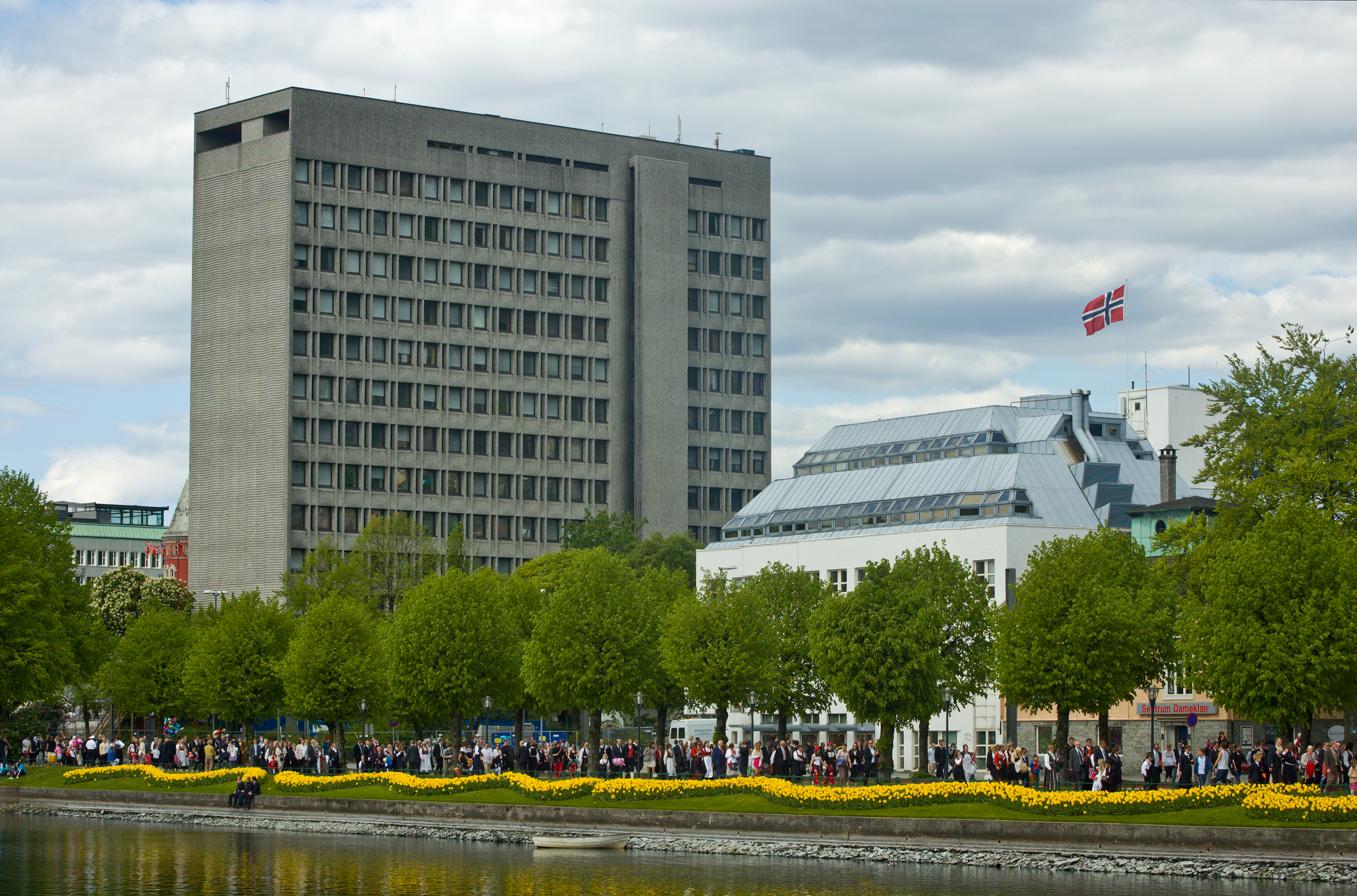 City hall of Bergen, Norway. Picture shot on Norway's constitution day, May 17, in 2009.